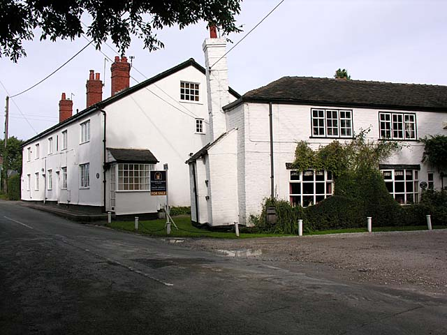 Accommodation Cottages. These houses were built for miners working in the nearby collieries. The King William Pit was in the field behind and a short distance beyond was the Shady Oak Pit which was active in the 1830's.